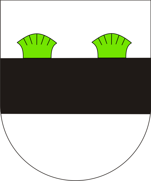 coat of arms barony of liesveld